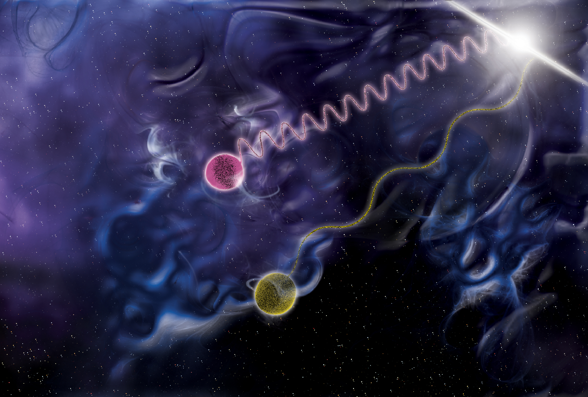 In this illustration, one photon (violet) carries a million times the energy of another (yellow). Some theorists predict travel delays for higher-energy photons, which interact more strongly with the proposed frothy nature of space-time. Yet Fermi data on two photons from a gamma-ray burst fail to show this effect, eliminating some approaches to a new theory of gravity. The animation link below shows the delay scientists had expected to observe. Credit: NASA/Sonoma State University/Aurore Simonnet